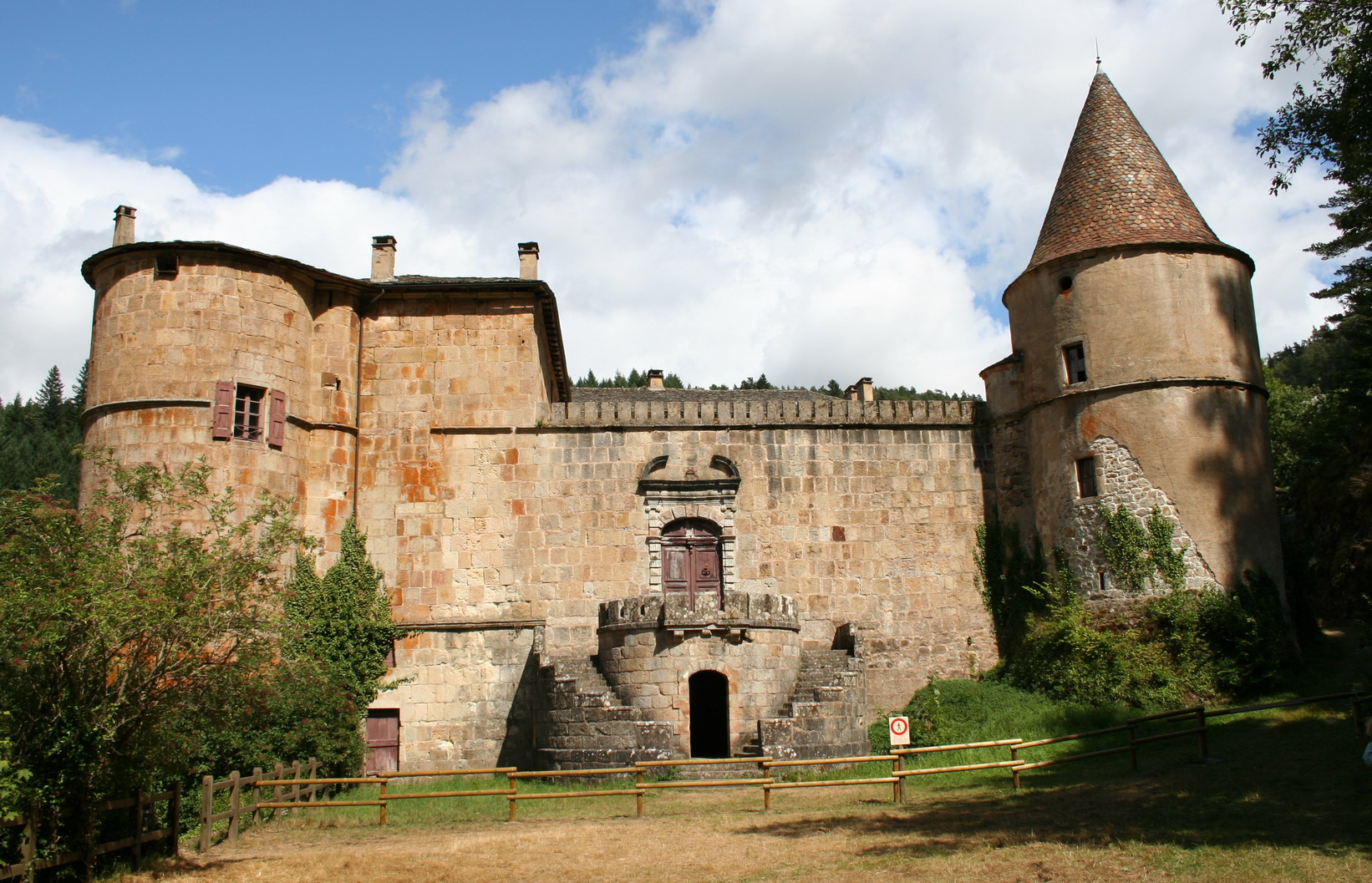 Roquedols castle, Maruèis.